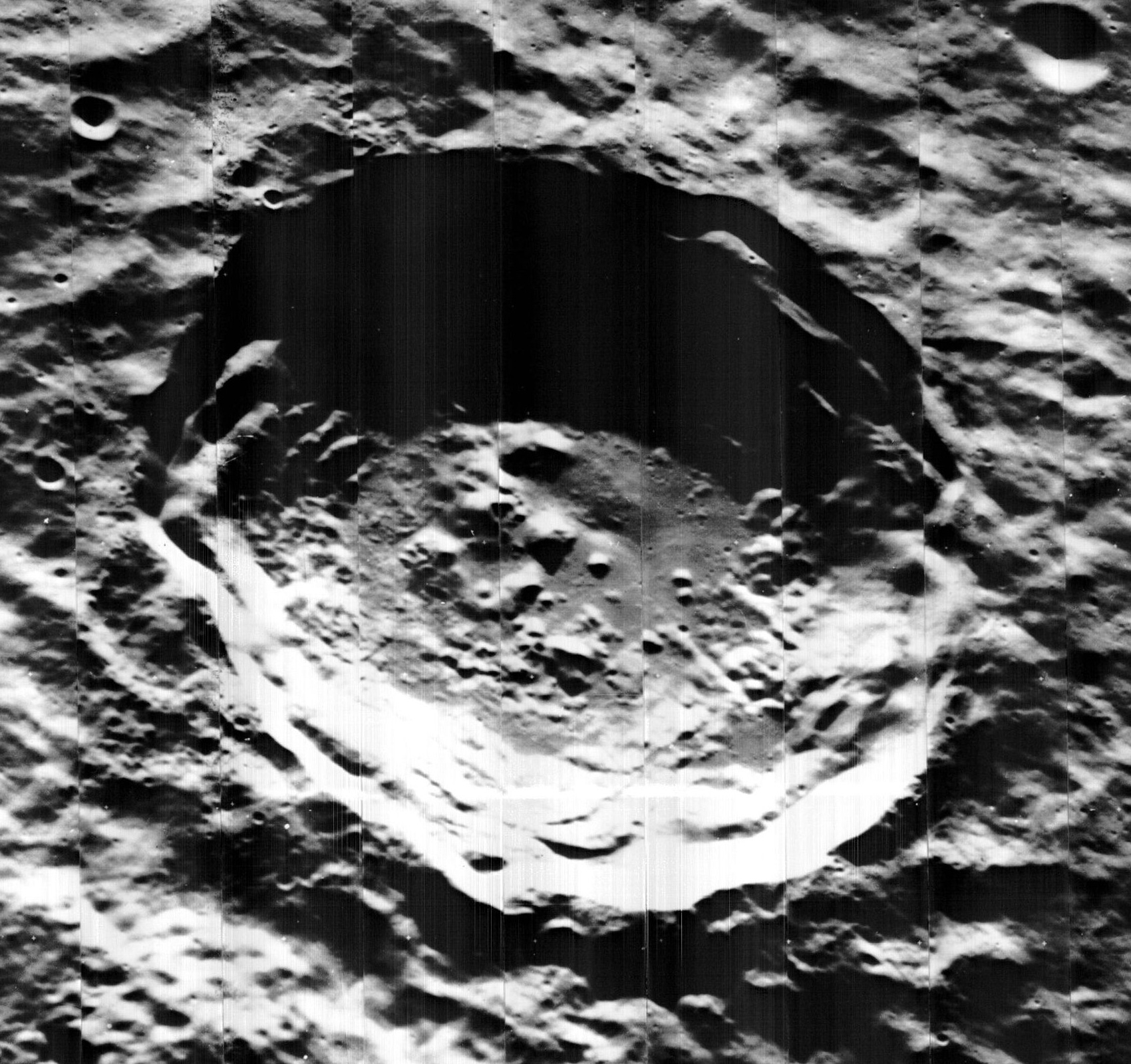 Oblique view of Kirkwood, on the far side of the moon, facing west.